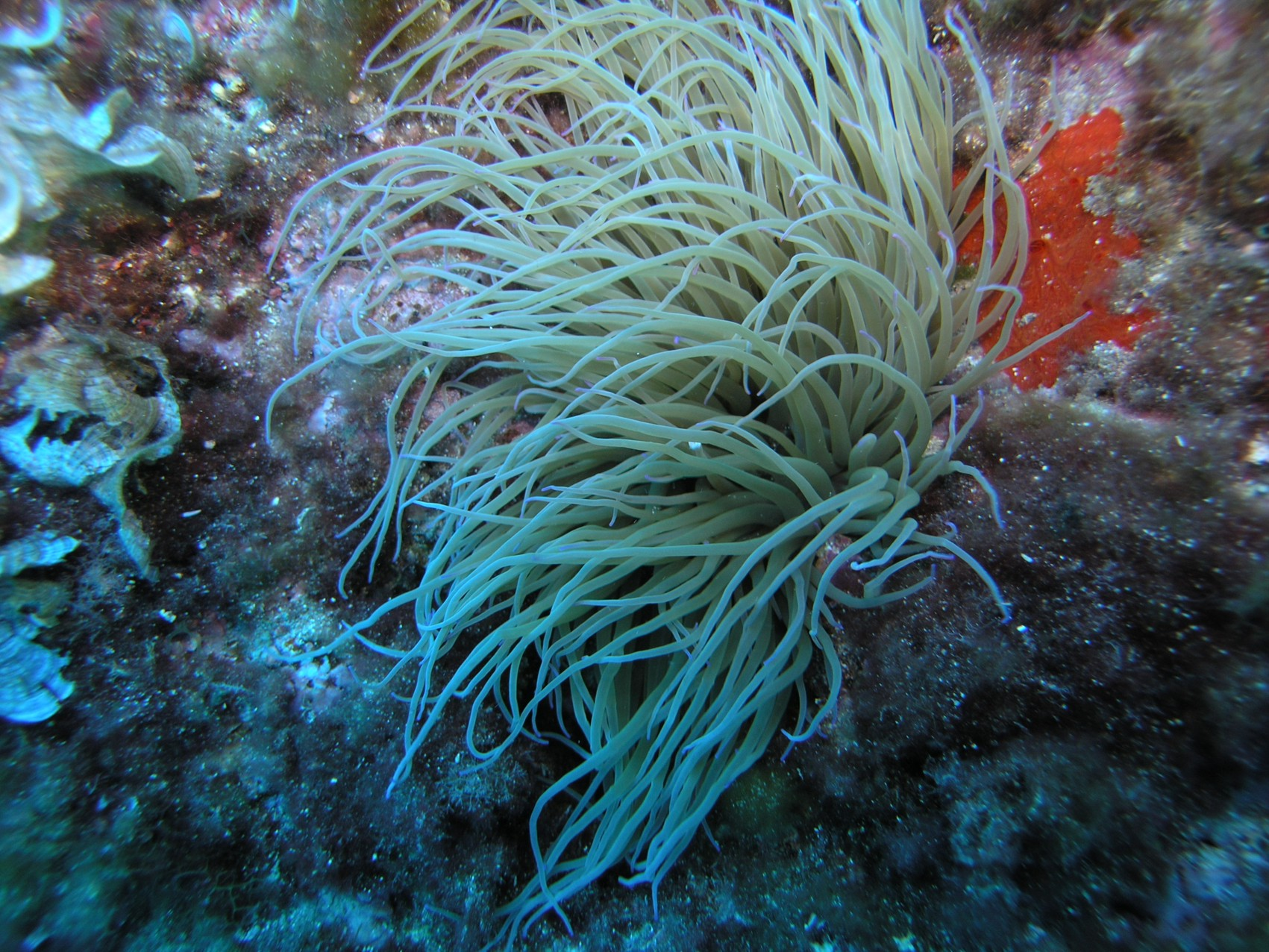 Sea anemone shot in Capo Caccia Alghero north west of Sardinia Italy